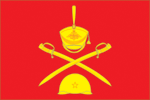 Flag of Borodinskoe, Moscow oblast, Russia